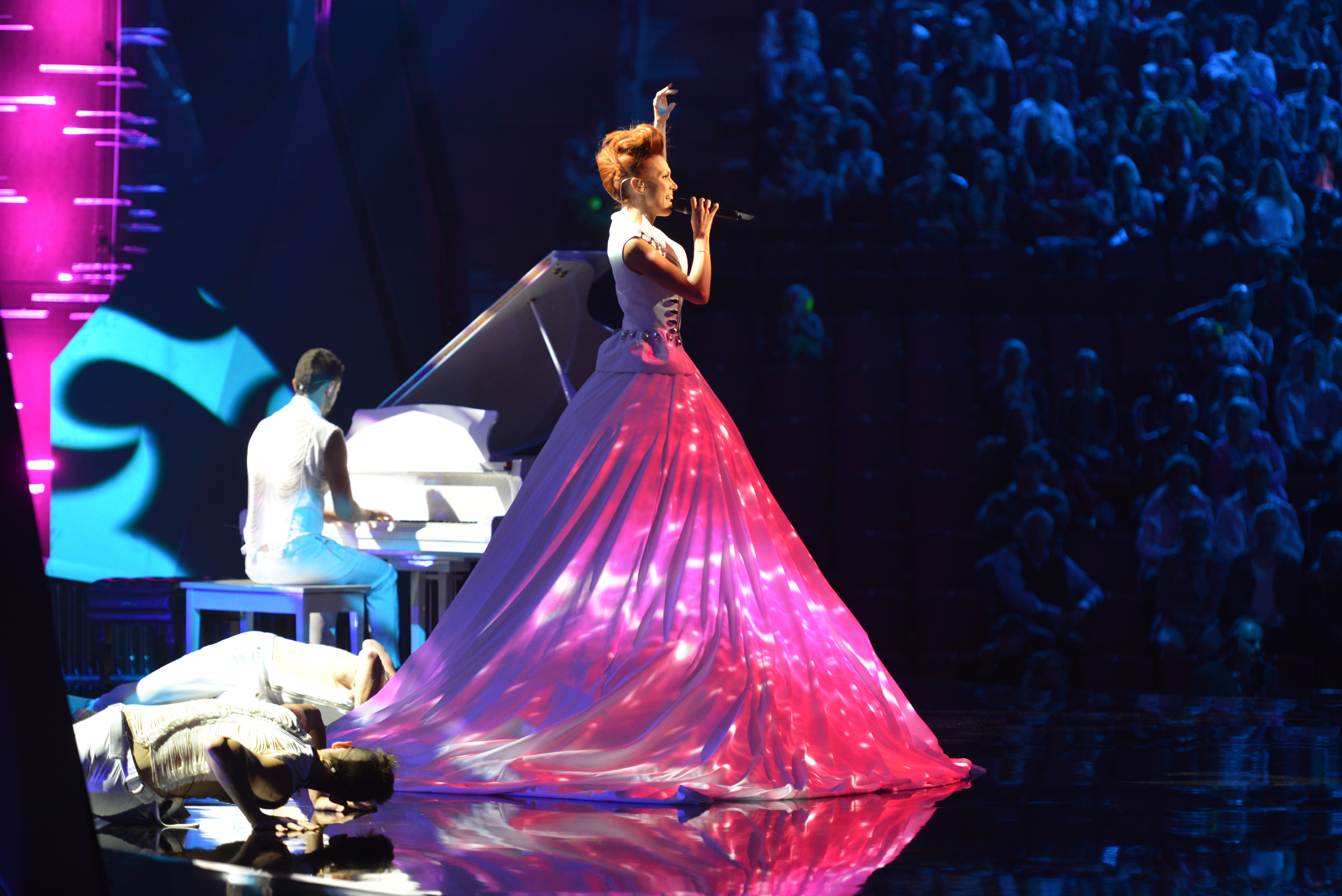 Aliona Moon representing Republic of Moldova with the song "O mie" during the third dress rehearsal of the first semi final of the Eurovision Song Contest 2013 in Malmö. (Help translate this text)